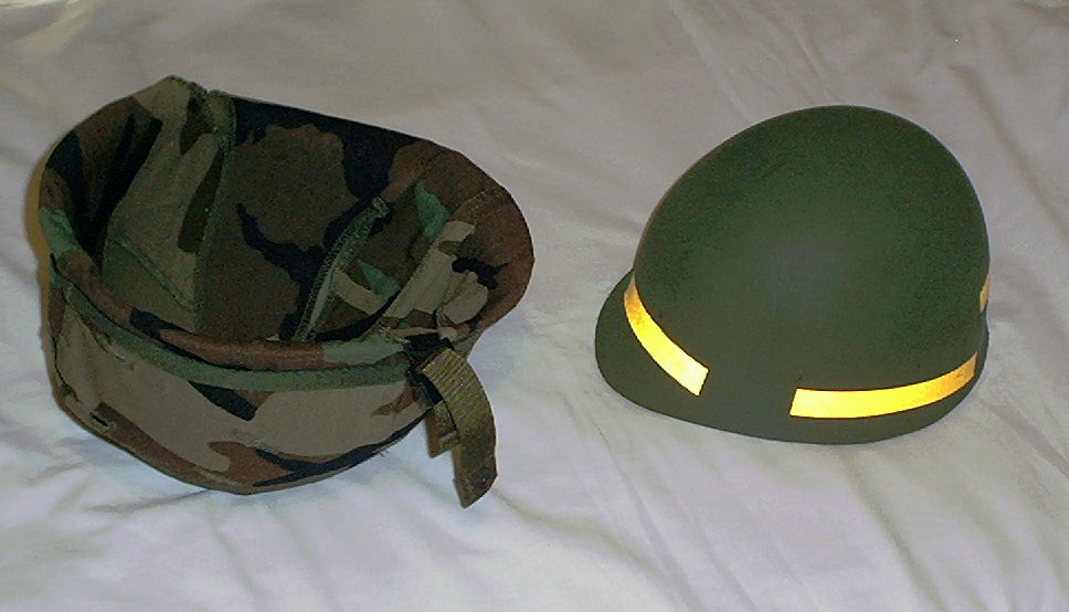 This image is of a personally owned M1 combat helmet and liner submitted to illustrate the two pieces that make up the helmet. This particular helmet set has been refurbished by me in several ways, specifically: a new coat of paint, an updated chinstrap, a new army surplus helmet cover, and reflective tape on liner for use as a hard hat.